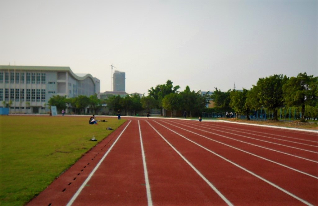 The athletic track and the new large stadium established in 2012 of Guangdong Jiangmen NO.1 Middle School.